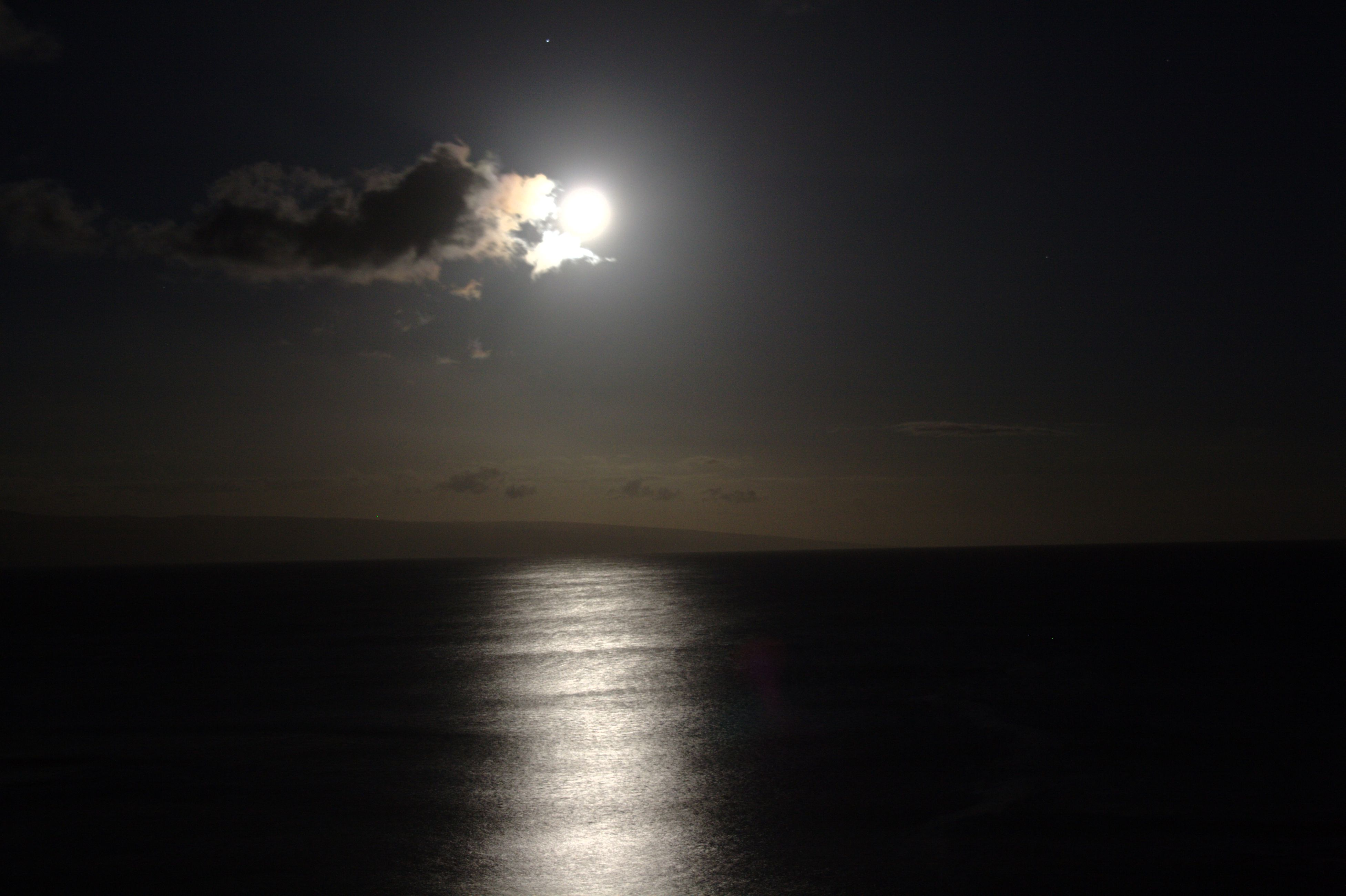 Picture of the Full moon setting with the Hawaiian Island of Lānaʻi in the background. Taken from the island of Maui. Image taken with Canon EOS 400D in RAW format and converted using Ufraw.